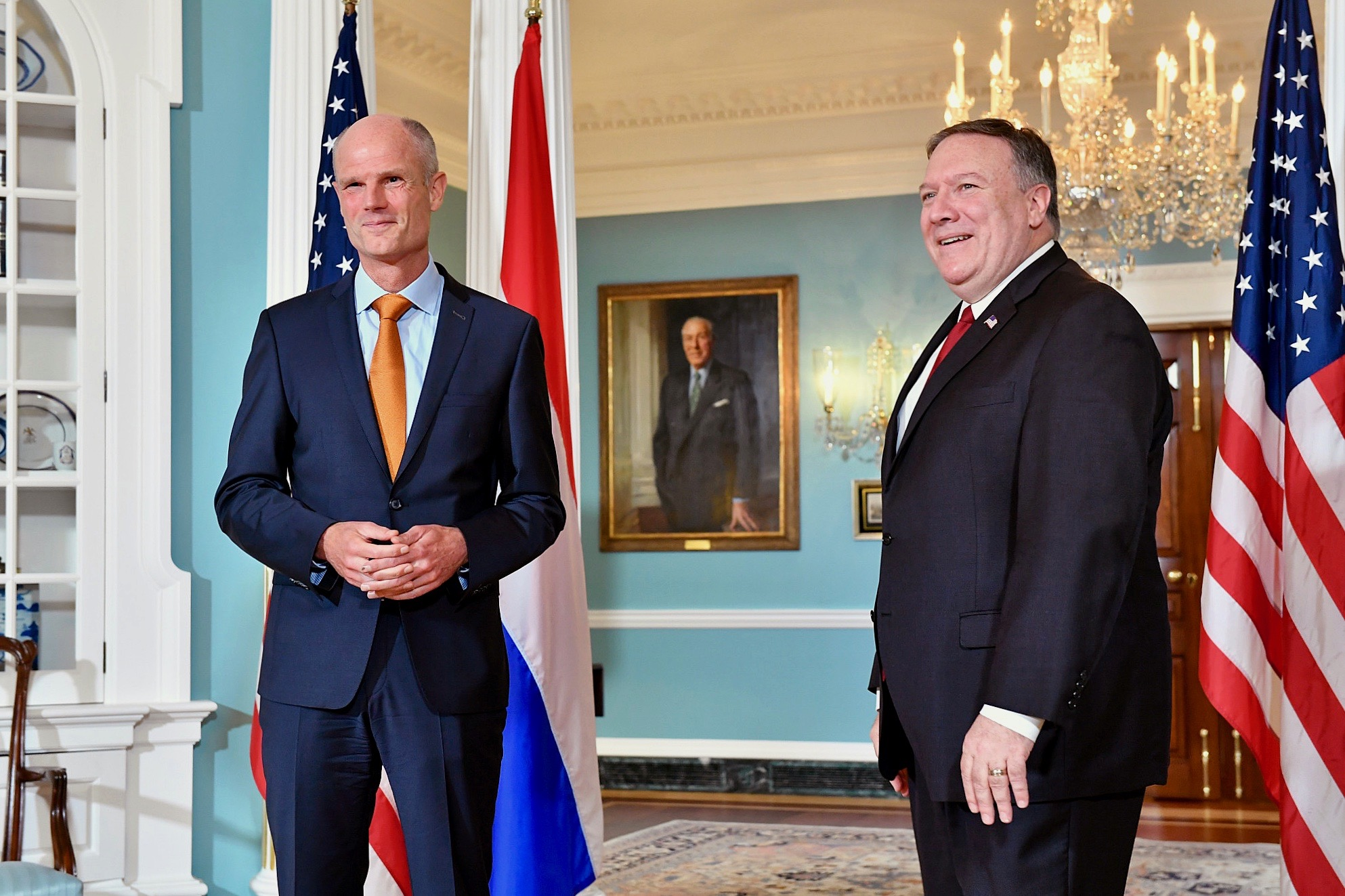 U.S. Secretary of State Mike Pompeo and Dutch Foreign Minister Stephanus Blok address reporters at the U.S. Department of State in Washington, D.C., on May 18, 2018. [State Department photo/ Public Domain]